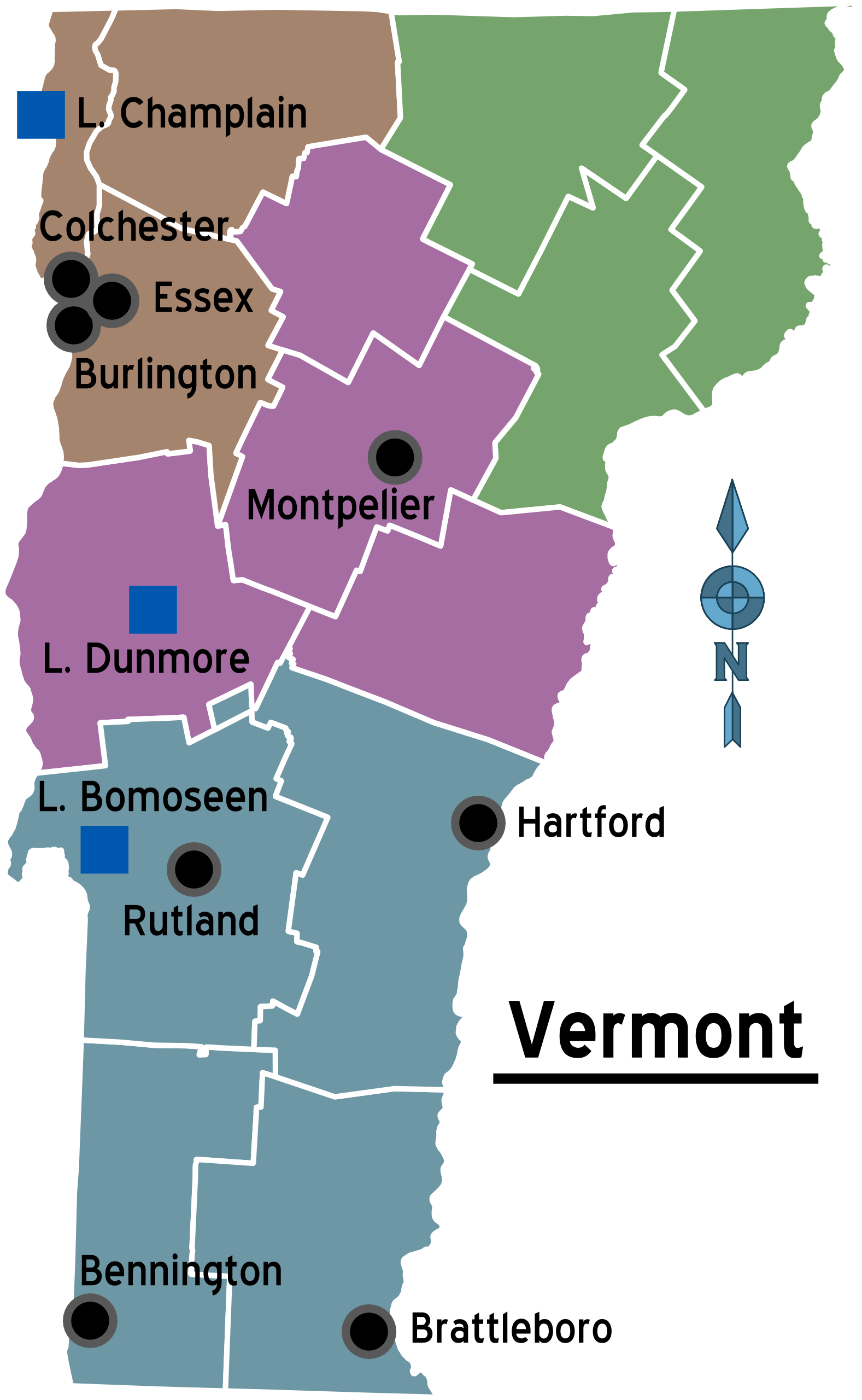 Regions of Vermont with Cities. Map showing Vermont's travel regions, cities, and major destinations. Green: :en:Northeast Kingdom Brown: :en:Northwest Vermont Purple: :en:Central Vermont Teal: :en:Southern Vermont, Vermont